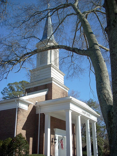 Blanche Hagan Chapel (Waleska United Methodist Church)